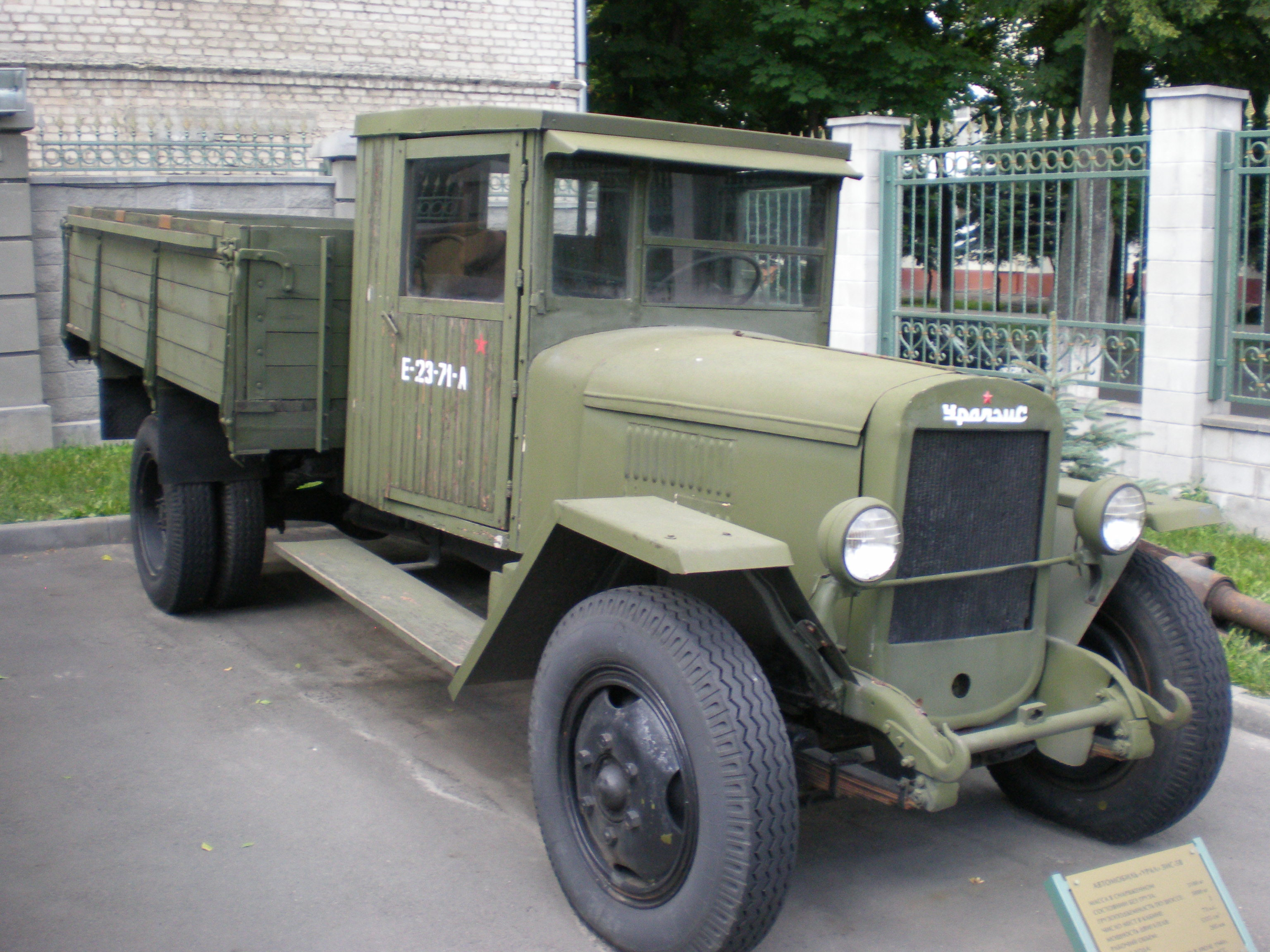 ZiS-5V truck in a military museum in Belarus.